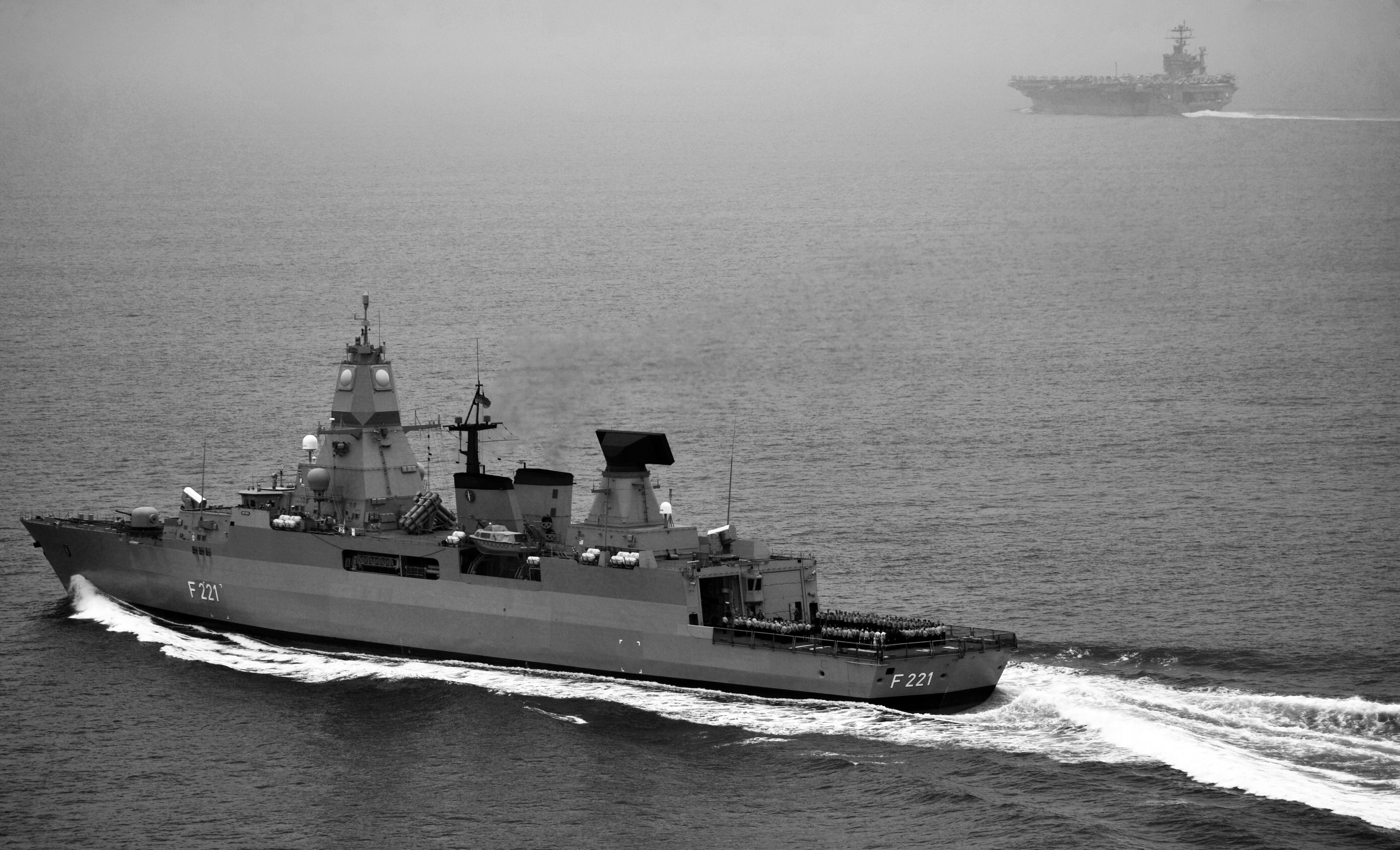 MEDITERRANEAN SEA (June 14, 2010) German navy frigate FGS Hessen (F221), left, holds an all hands quarters on the fan tail as it cruises alongside the Nimitz-class aircraft carrier USS Harry S. Truman (CVN 75). Harry S. Truman is deployed as part of the Harry S. Truman Carrier Strike Group supporting maritime security operations and theater security cooperation efforts in the U.S. 5th and 6th Fleet areas of responsibility. (U.S. Navy photo by Mass Communication Specialist 2nd Class Kilho Park/Released)